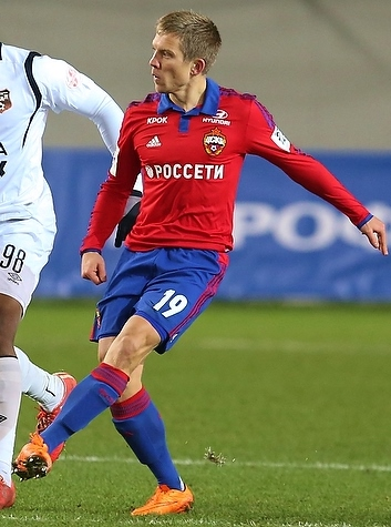 Aleksandrs Cauņa